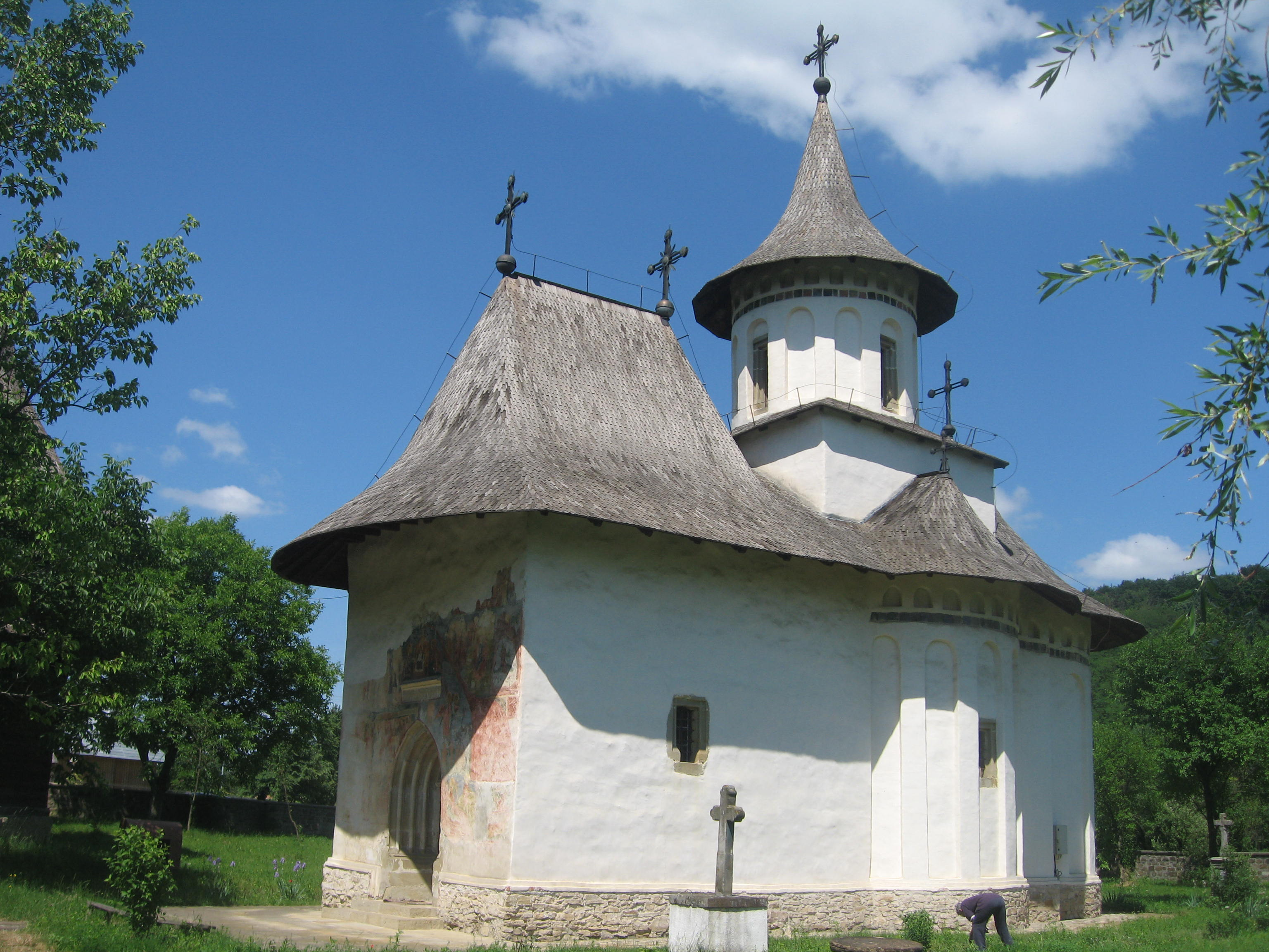 The Church of Pătrăuţi, Romania, UNESCO monument 01